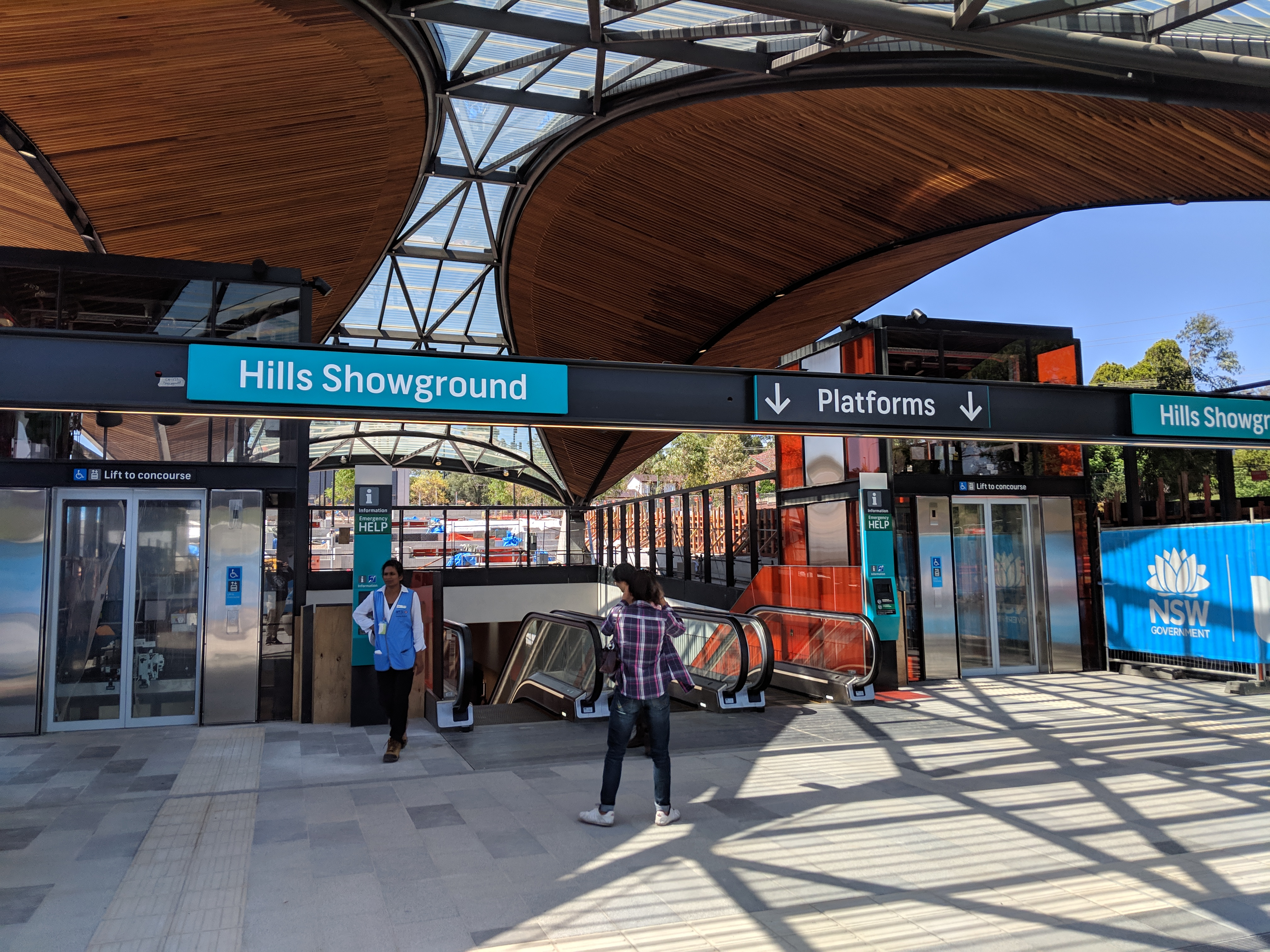 Sydney Metro Hills Showground Station